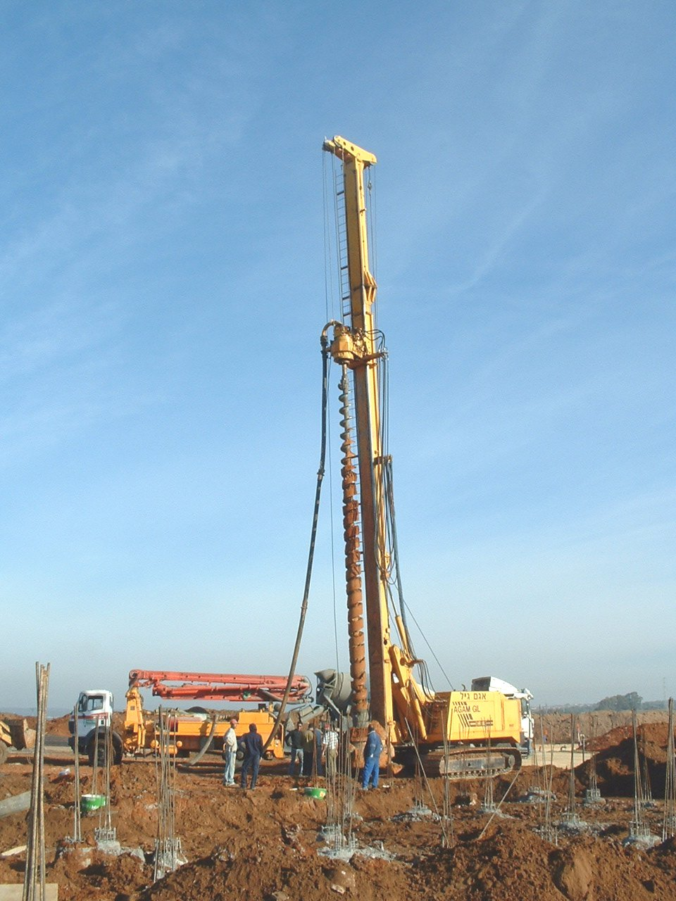 A Drilling machine at a construction site with a concrete pump and a barely visible concrete mixer. The tops of foundation columns with re-enforcing iron rods sticking out, are visible at the bottom of the photo.